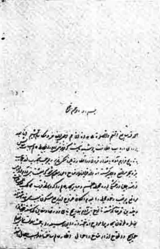 The first page of the manuscript of "Kashf al-Qaraib" (The Discovery of the Unknown) of Azerbaijani scientist Abbasgulu Bakikhanov